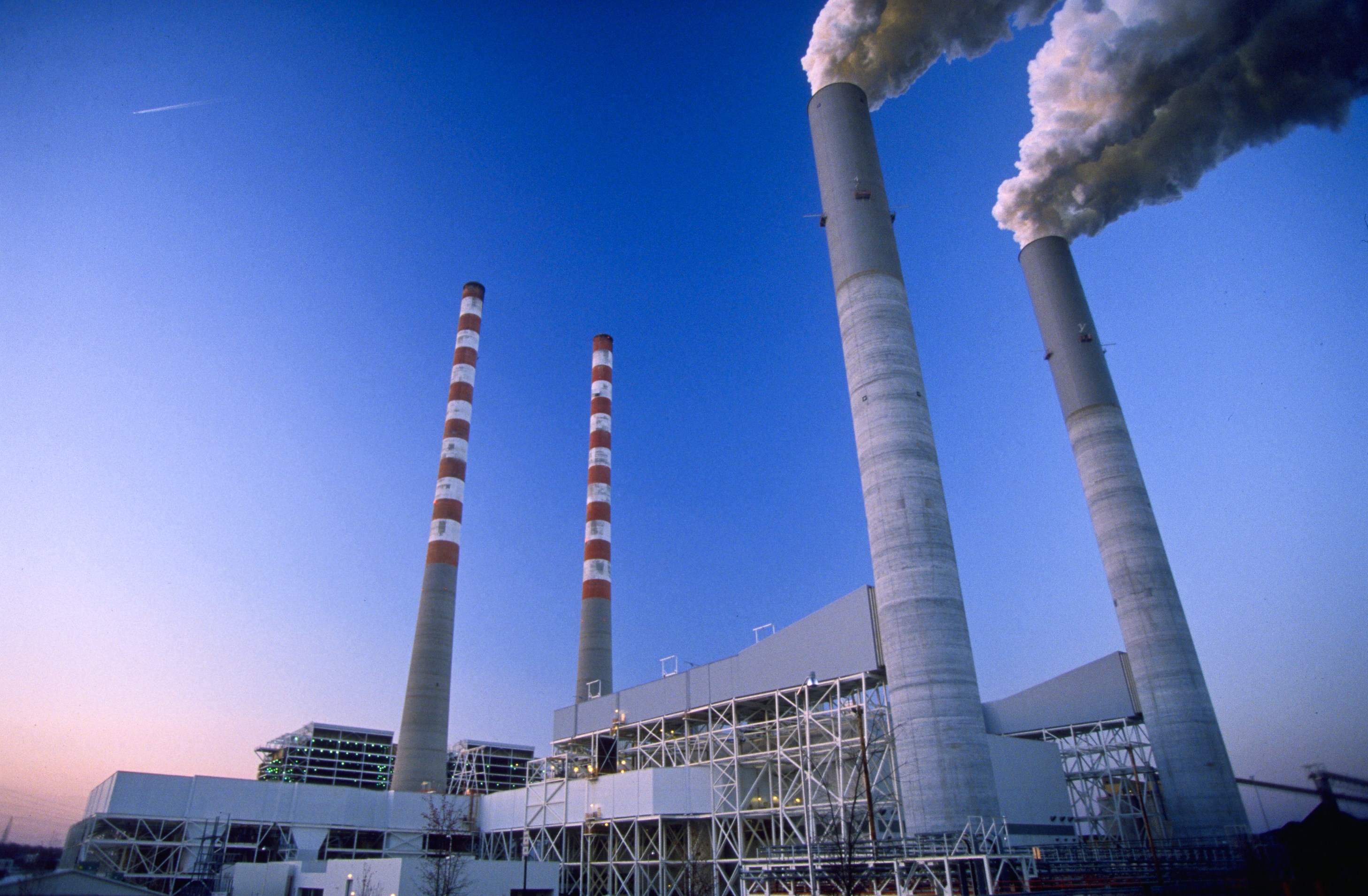 Cumberland Fossil Plant.